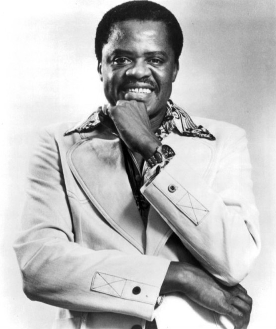 Publicity photo of Stanely Turrentine.